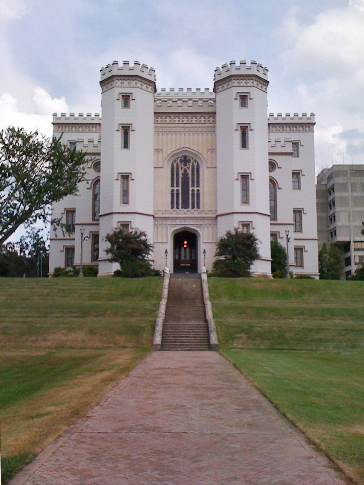 The Old Louisiana State Capitol in Baton Rouge, LA, built in 1849 during the administration of Gov. Isaac Johnson. The view is from the Mississippi River side.